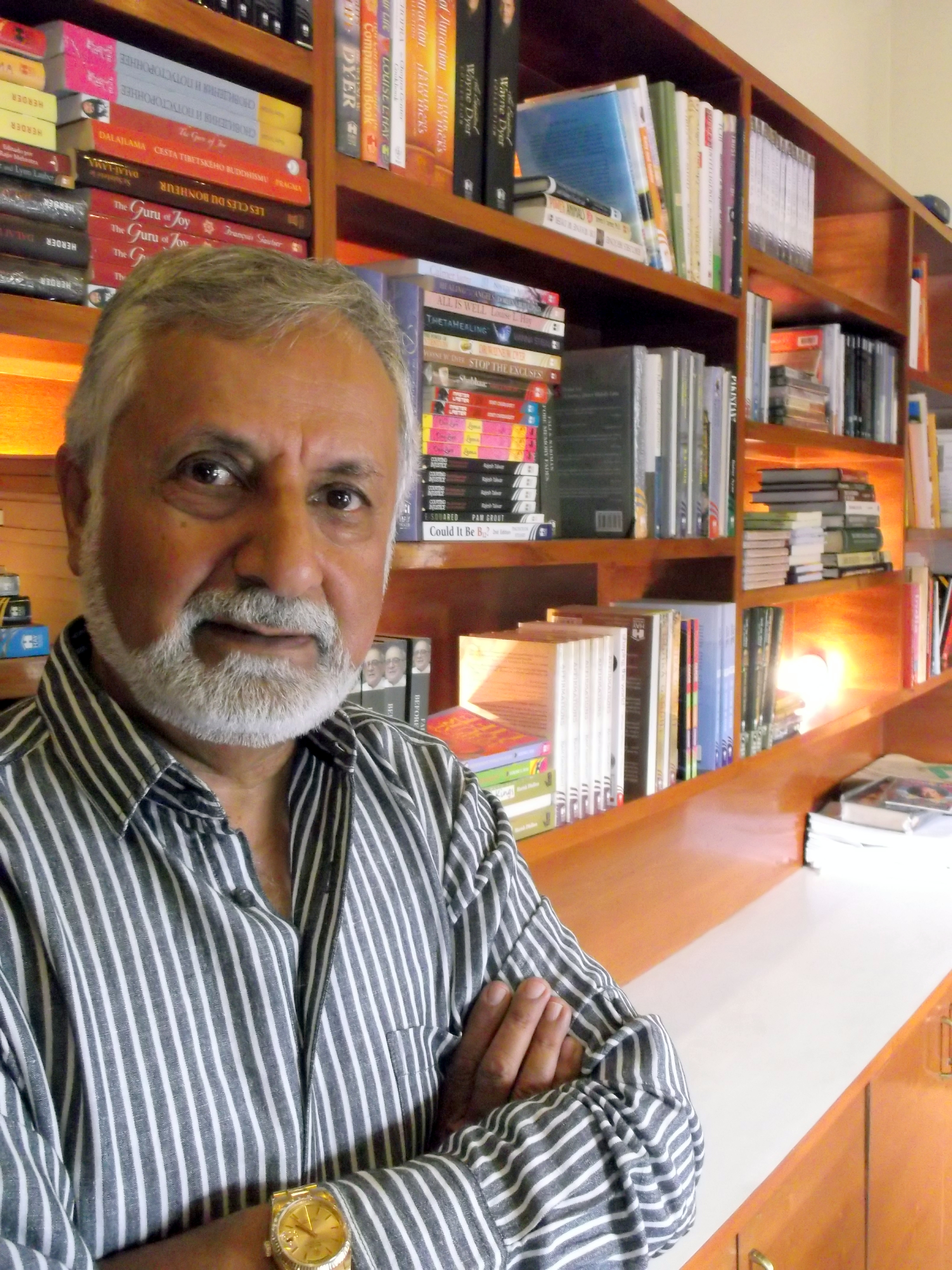 Ashok Chopra (born 26 February 1949), publisher, author, editor and literary columnist, is a well known name in the publishing industry.